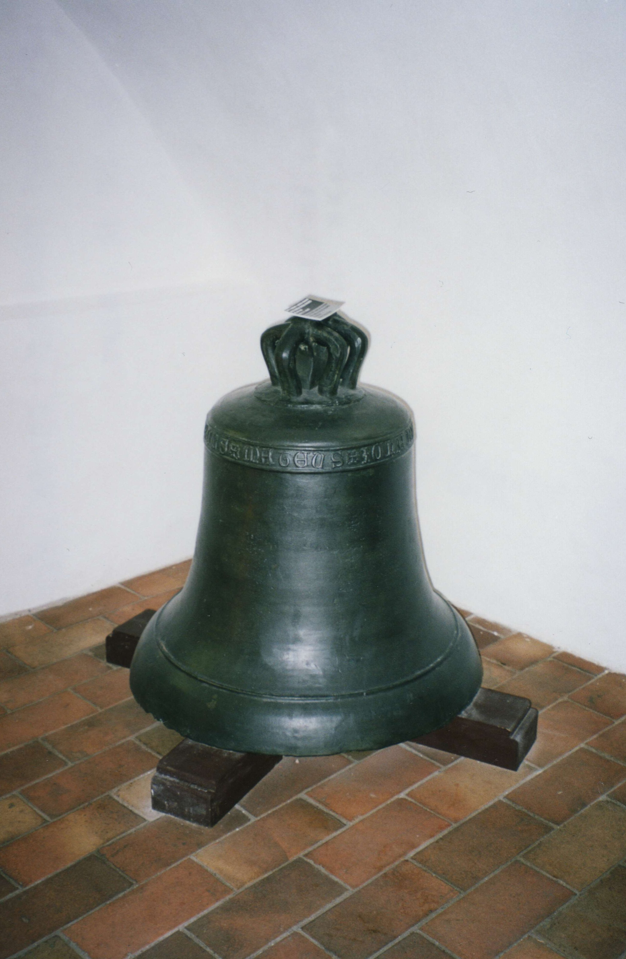 Middle-age bell. The exhibition Czech Bellfounding in Vrchotovy Janovice castle, Benešov District, Central Bohemian Region, Czech Republic.